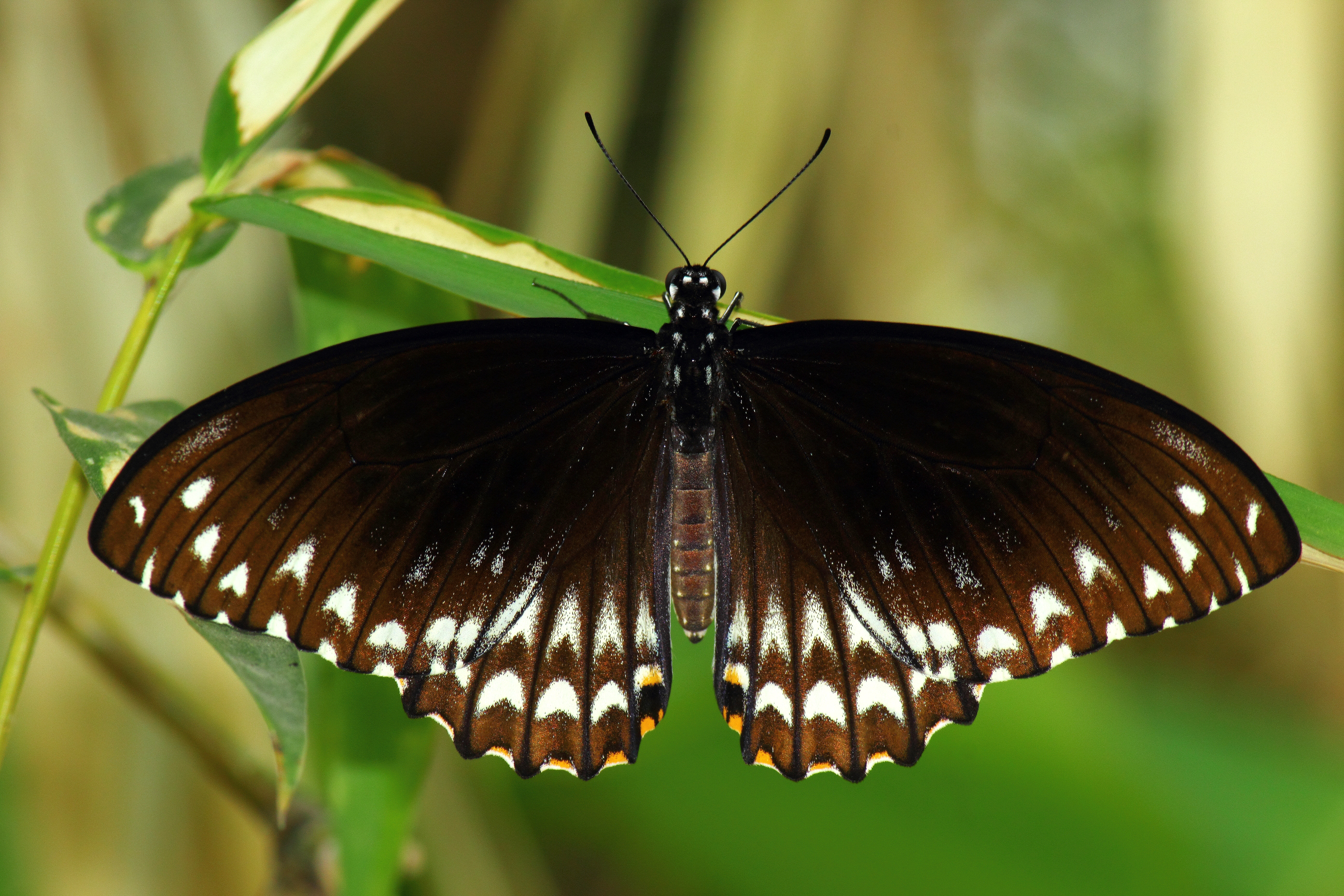 Open wing position of Papilio clytia, Form Clytia, Linnaeus, 1758 – Common Mime. Subspecies: Papilio clytia clytia Linnaeus, 1758 – Oriental Common Mime